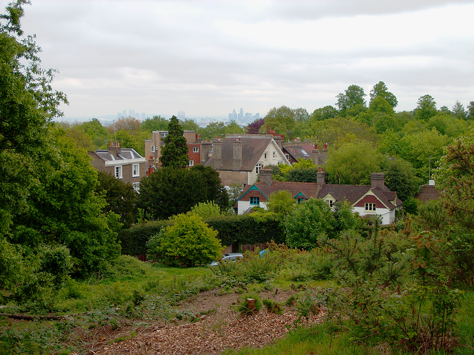 Vale of Health, Hampstead Heath, North London